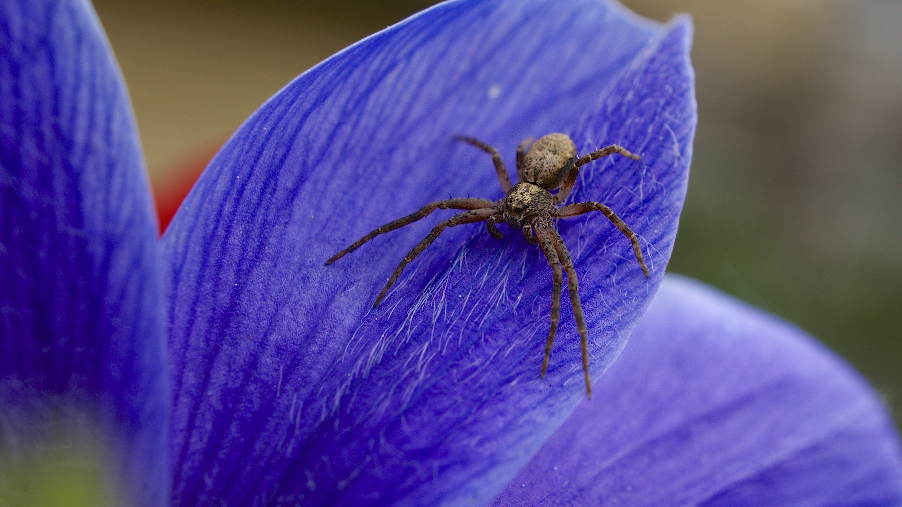 About four or five millimetres across. On an anemone petal